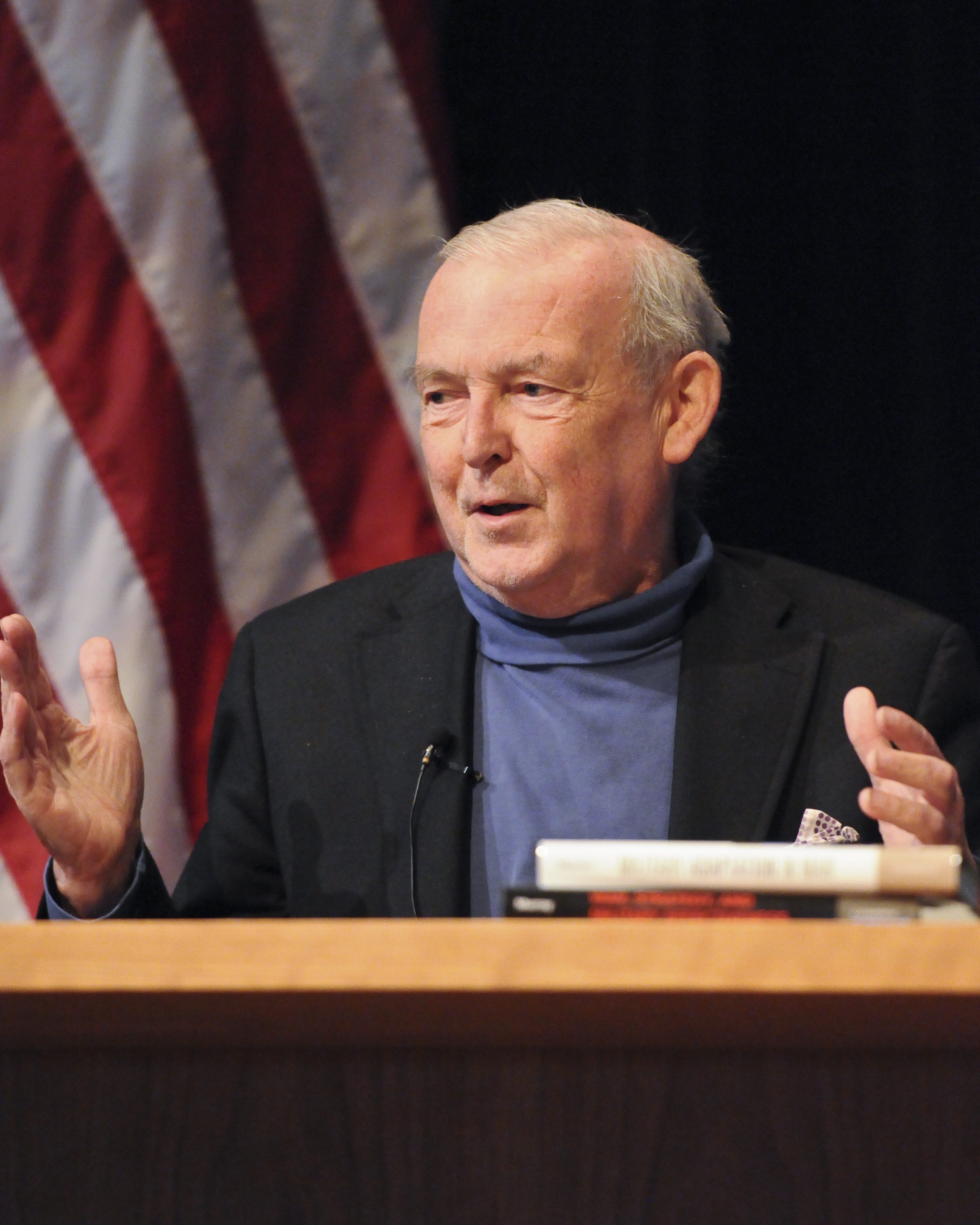 Paul Kennedy, the J. Richardson Dilworth professor of history at Yale University, addresses faculty and students during a lecture at the U.S. Naval War College. The lecture addressed the pre-WWII British policies of appeasement and the lessons they can teach to current American strategy and policy. (U.S. Navy photo by Mass Communication Specialist 2nd Class Eric Dietrich/Released)